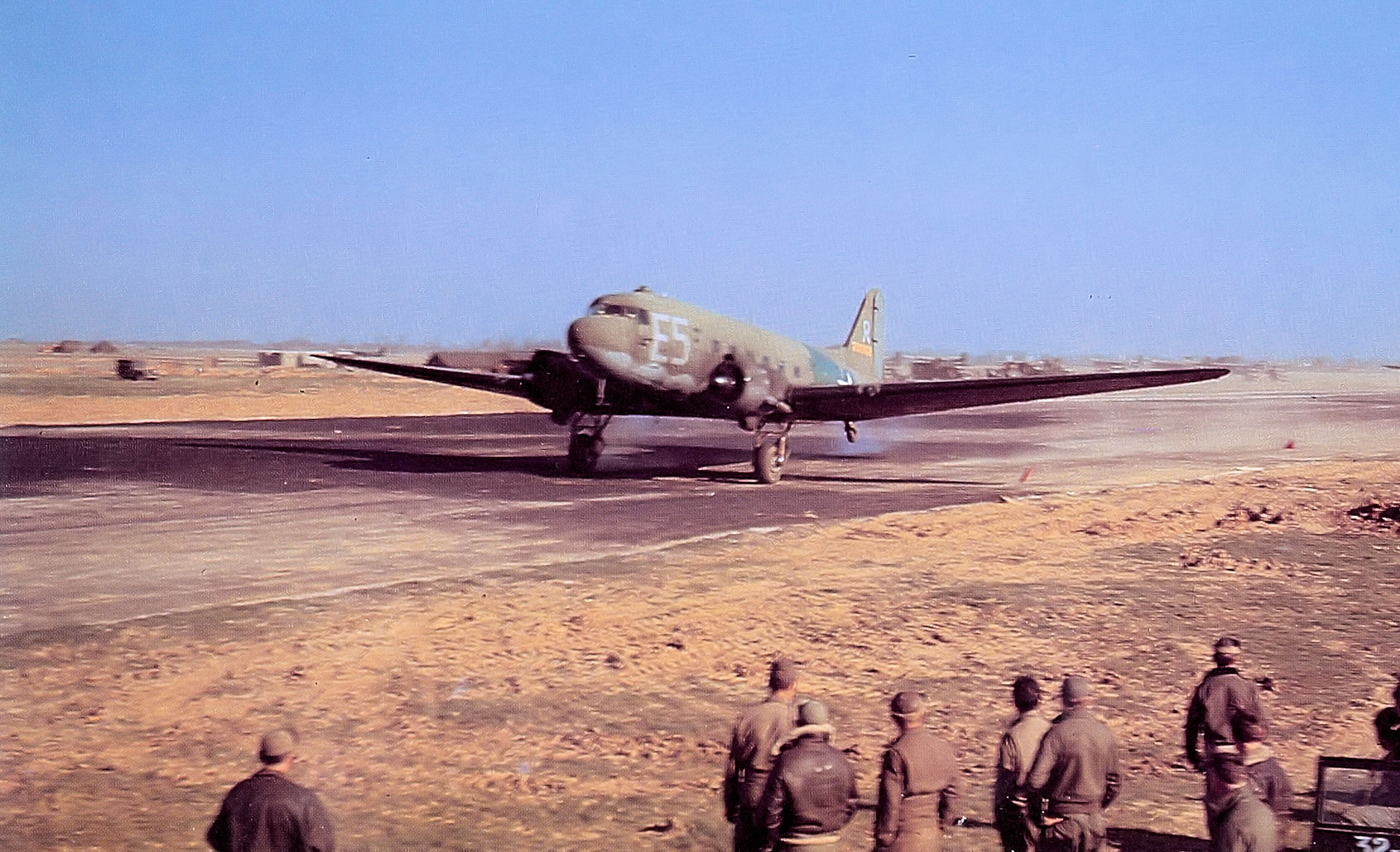 32d Troop Carrier Squadron Douglas C-47A-15-DK Skytrain 42-92862 taking off from Poix Airfield (B-44), France, during Operation Varsity, 24 March 1945